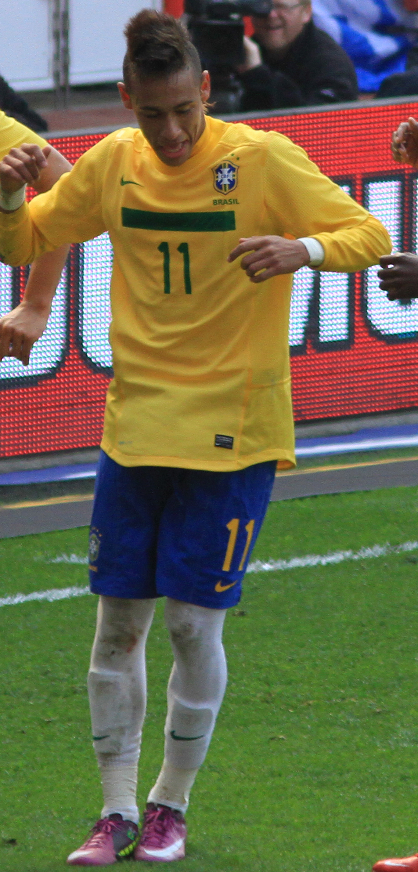 André Santos, Neymar and Ramires celebrate Neymar's goal 1